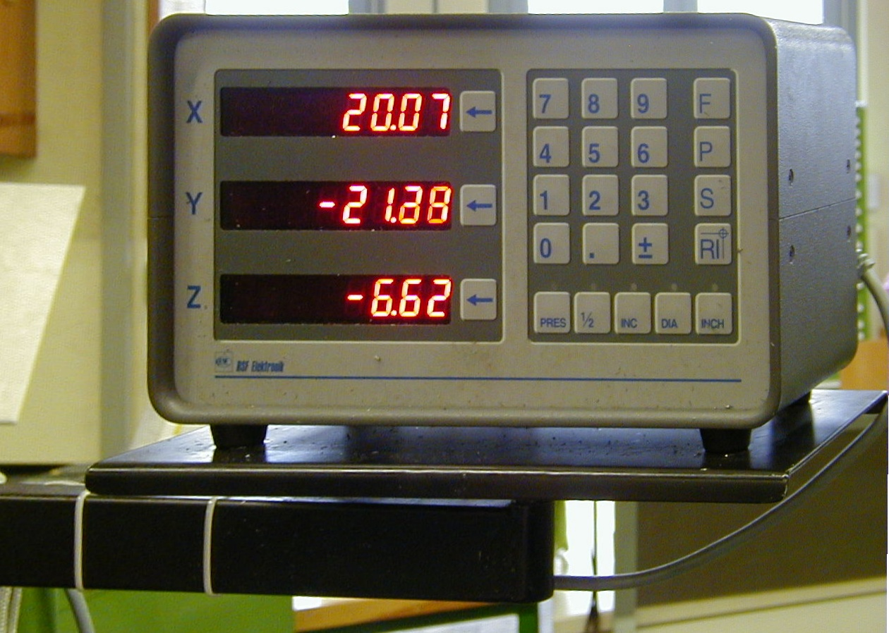 Passive XYZ-Display of a traditional milling machine. (NC, not CNC)